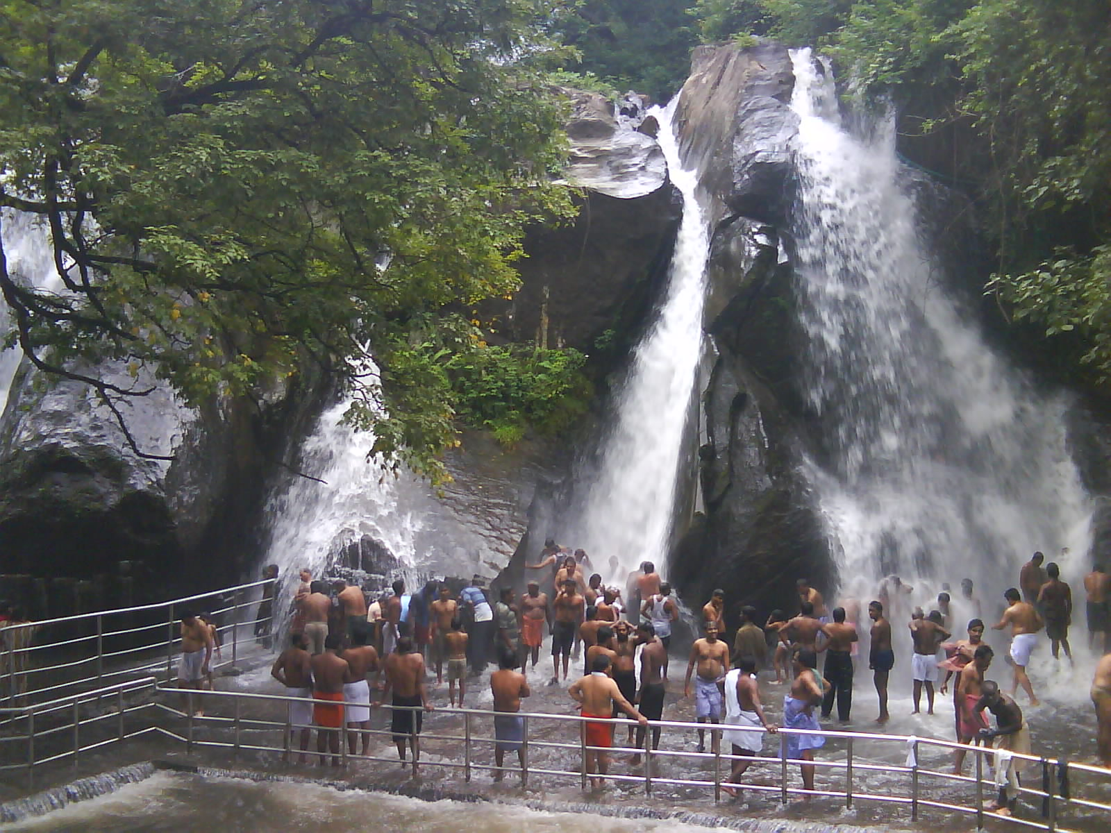 Five Falls is one of the tourist place in Courtallam, Tirunelveli District, Tamil Nadu, India. In Tamil language, Five Falls termed as ' Aiyntharuvi'.